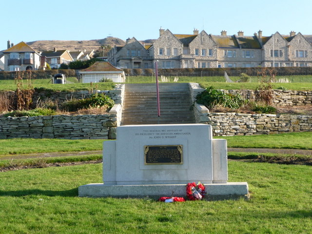 Portland: US Army memorial This memorial stands on the western corner of Victoria Gardens. The inscription in the stonework states, 'This memorial was unveiled by His Excellency the American Ambassador, Mr John G. Winant', while the plaque below reads: 1944-1945 The major part of the American assault force which landed on the shores of France on D-Day, 6 June 1944, was launched from Portland Harbor. From 6 June 1944 to 7 May 1945, 418,585 troops and 144,093 vehicles were embarked from this harbor. This plaque marks the route which the vehicles and troops took on their way to the points of embarkation. Presented by the 14th Major Port, U.S. Army. Harold G. Miller, Major, T.C., Sub Port Commander Sherman L. Kiser, Colonel, T.C., Port Commander